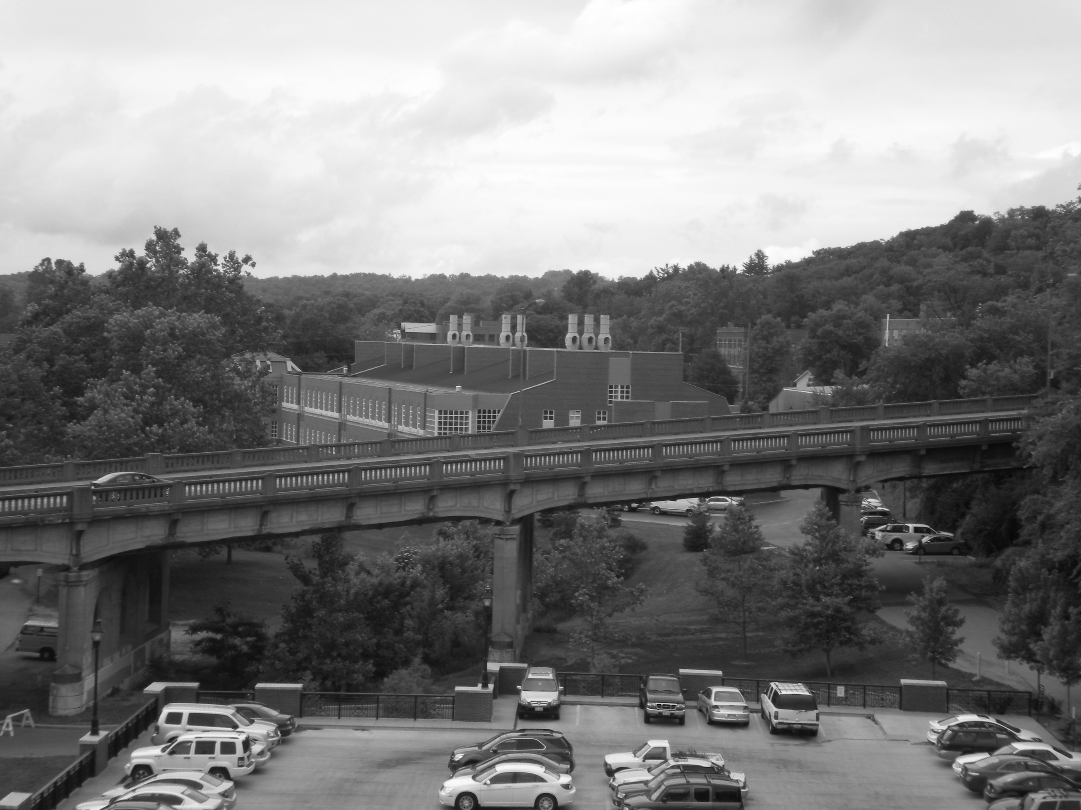 The Second Bridge on Richland Avenue, Athens, Ohio